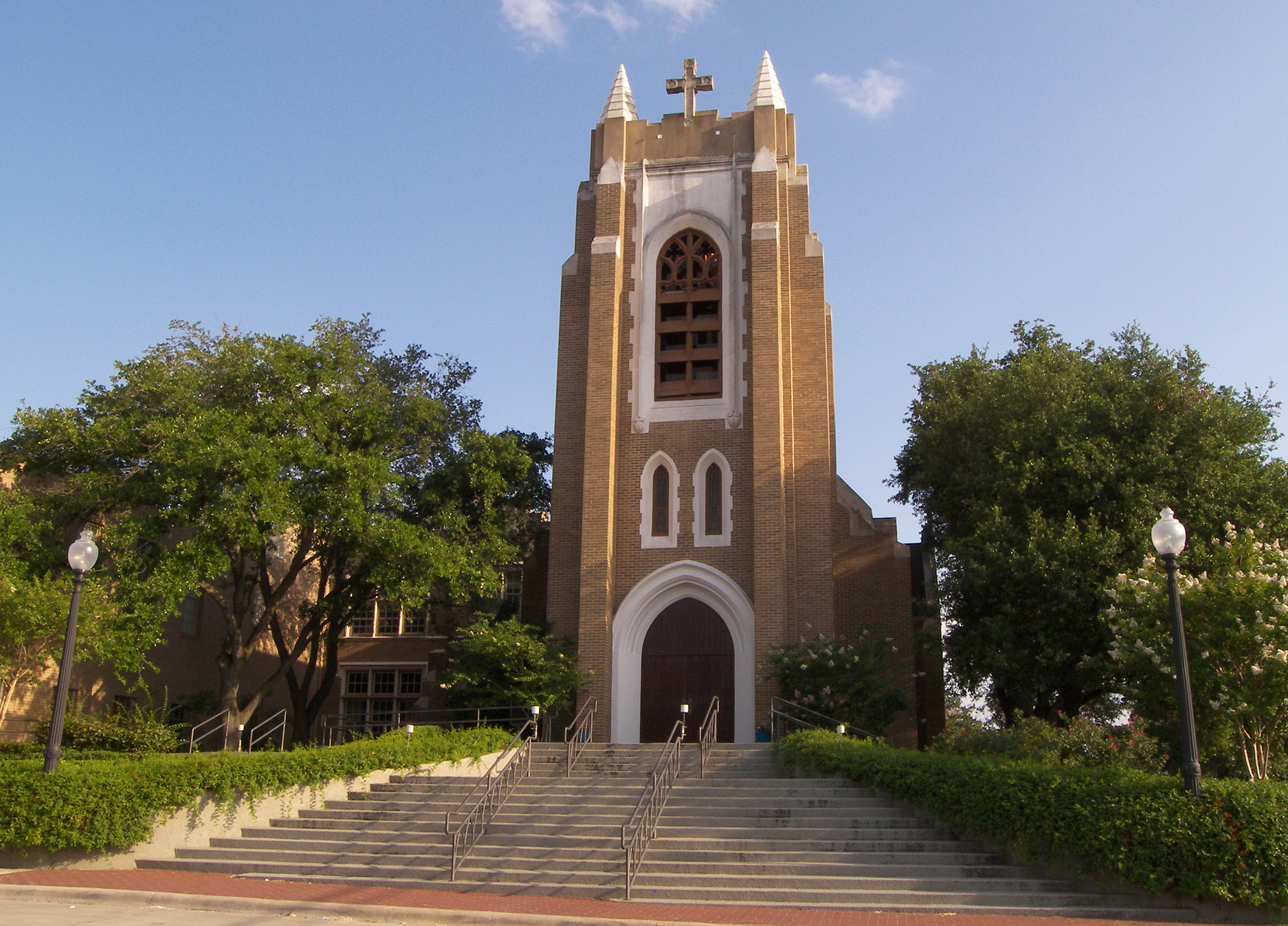 Saint Andrew's Episcopal Church located in Bryan, Texas, United States was built in 1914. The church was added to the National Register of Historic Places on September 25, 1987.